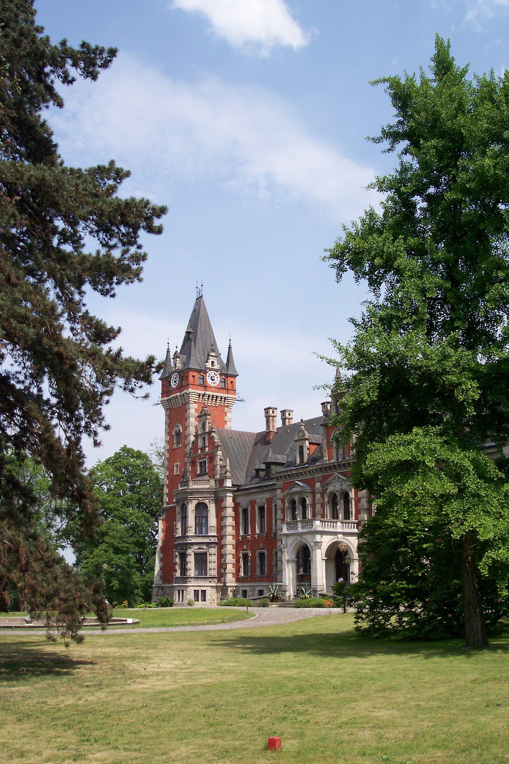 Palace in Pławniowice/Poland